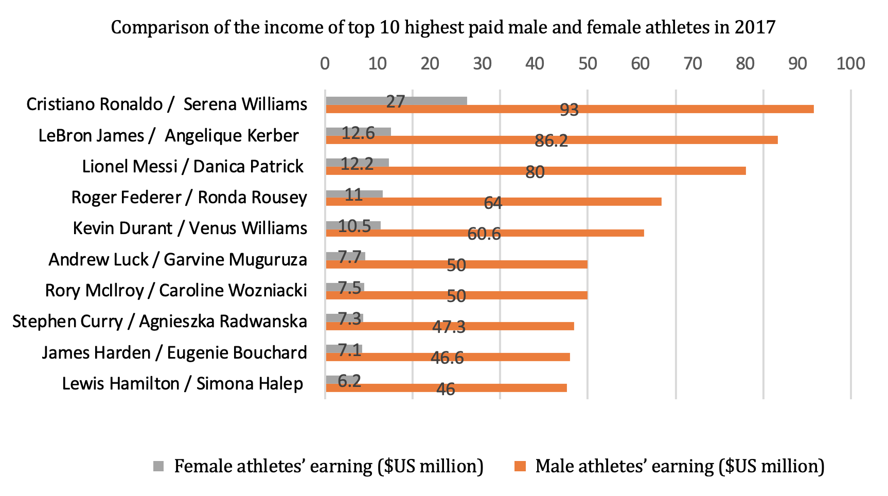 The income of the top 10 highest-paid female and male athletes based on the statistics released by Forbes in 2017, which helps to demonstrate the pay gap in sports.